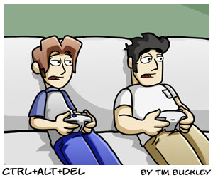 A slightly edited excerpt from the Ctrl+Alt+Del webcomic showing Ethan and Lucas, the main characters of Ctrl+Alt+Del, gaming on the couch.